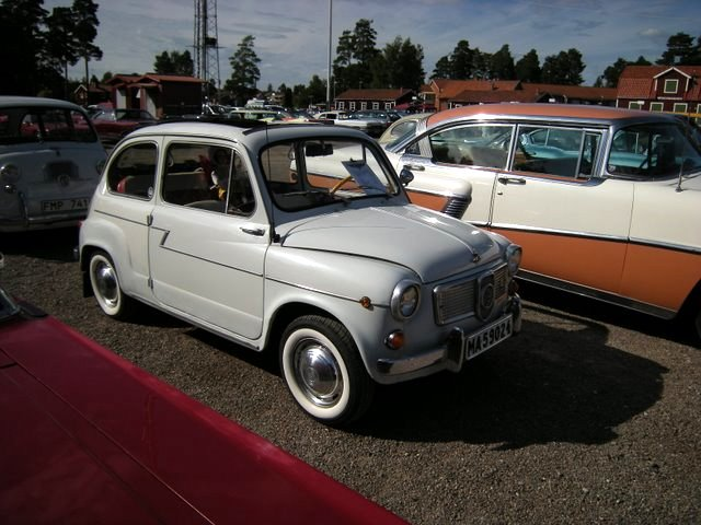 Classic Car Week in Rättvik